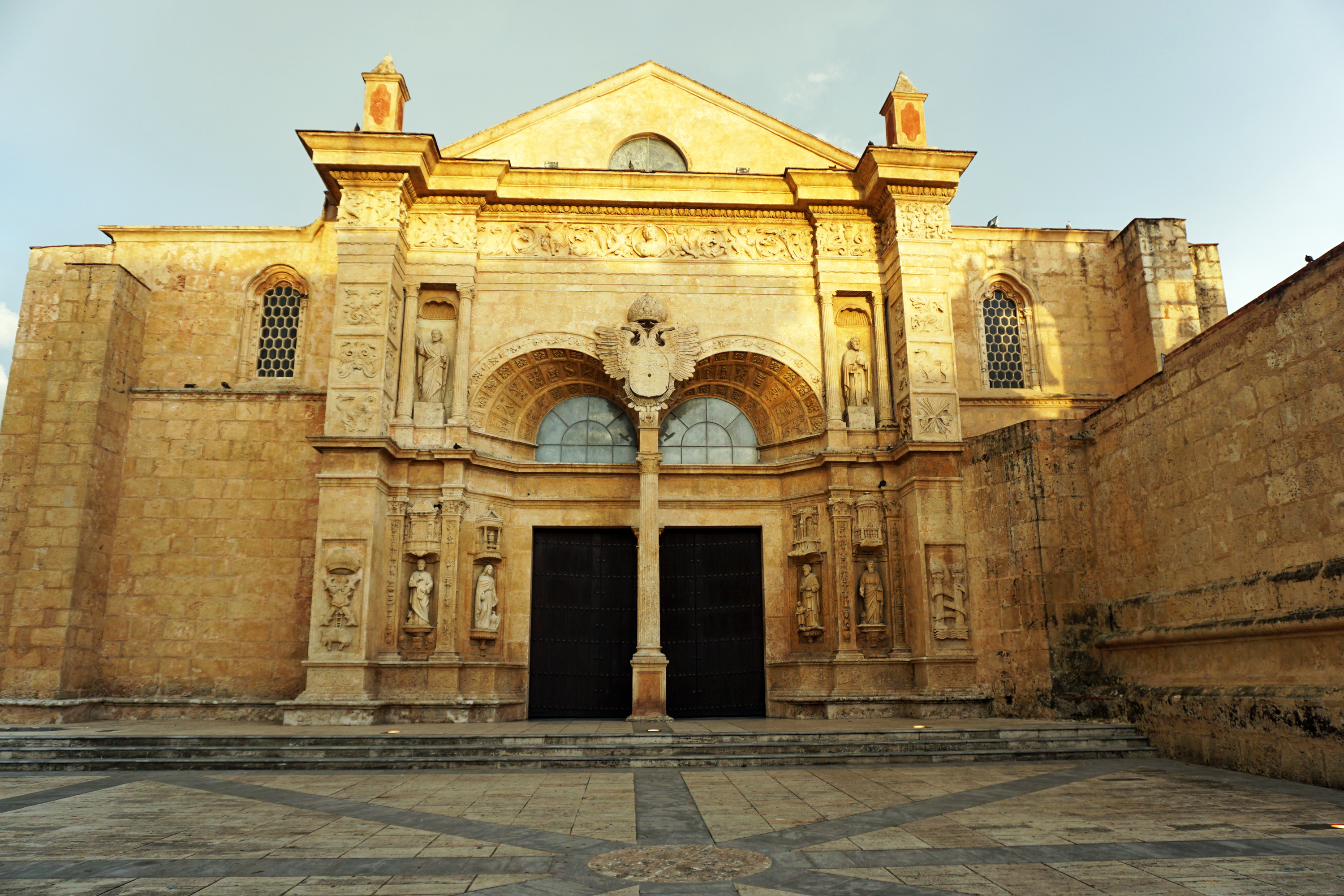 Fachada principal (oeste) Catedral Primada de América (Basílica Menor de Santa María), Ciudad Colonial, Santo Domingo.